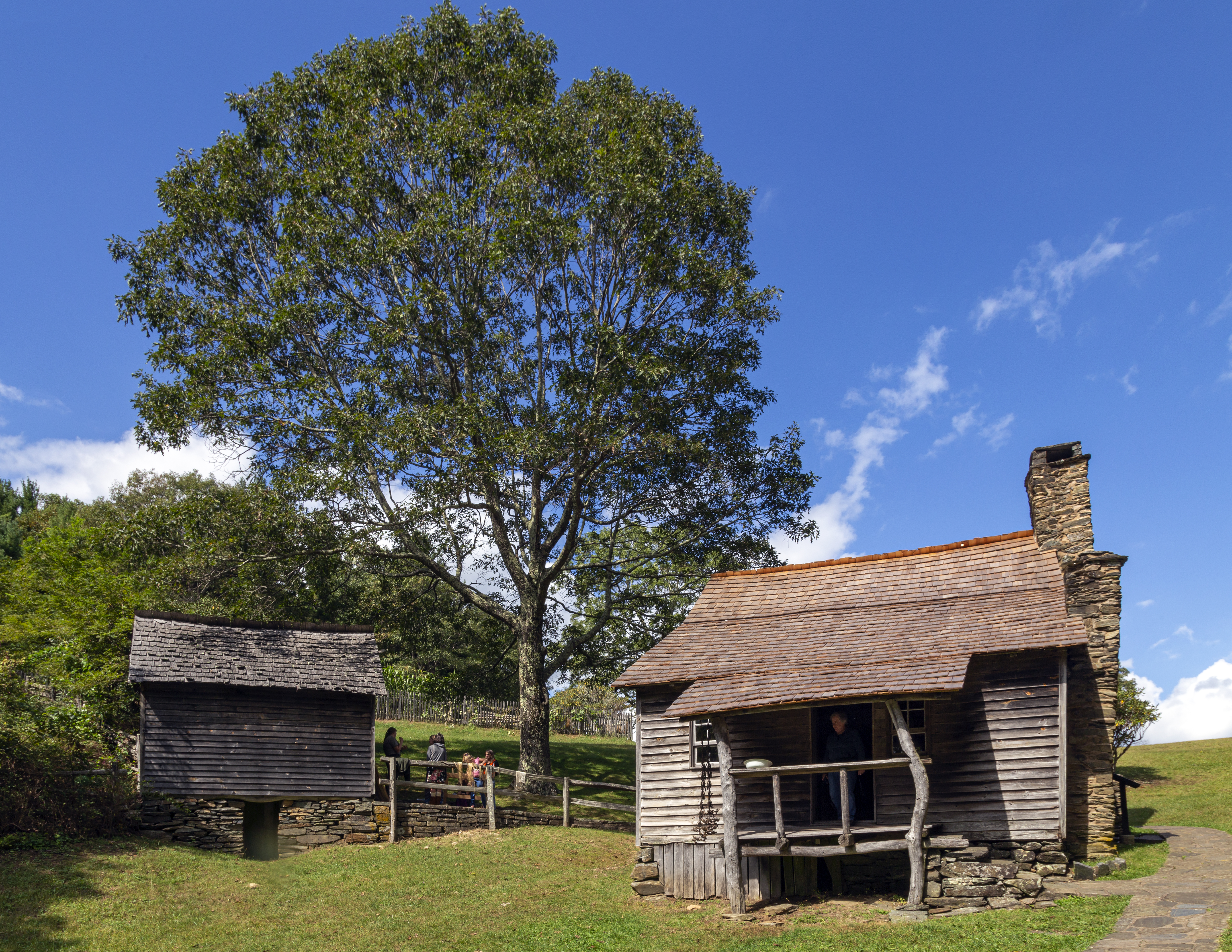 The Brinegar homestead on the Blue Ridge Parkway, Alleghany County, North Carolina, USA